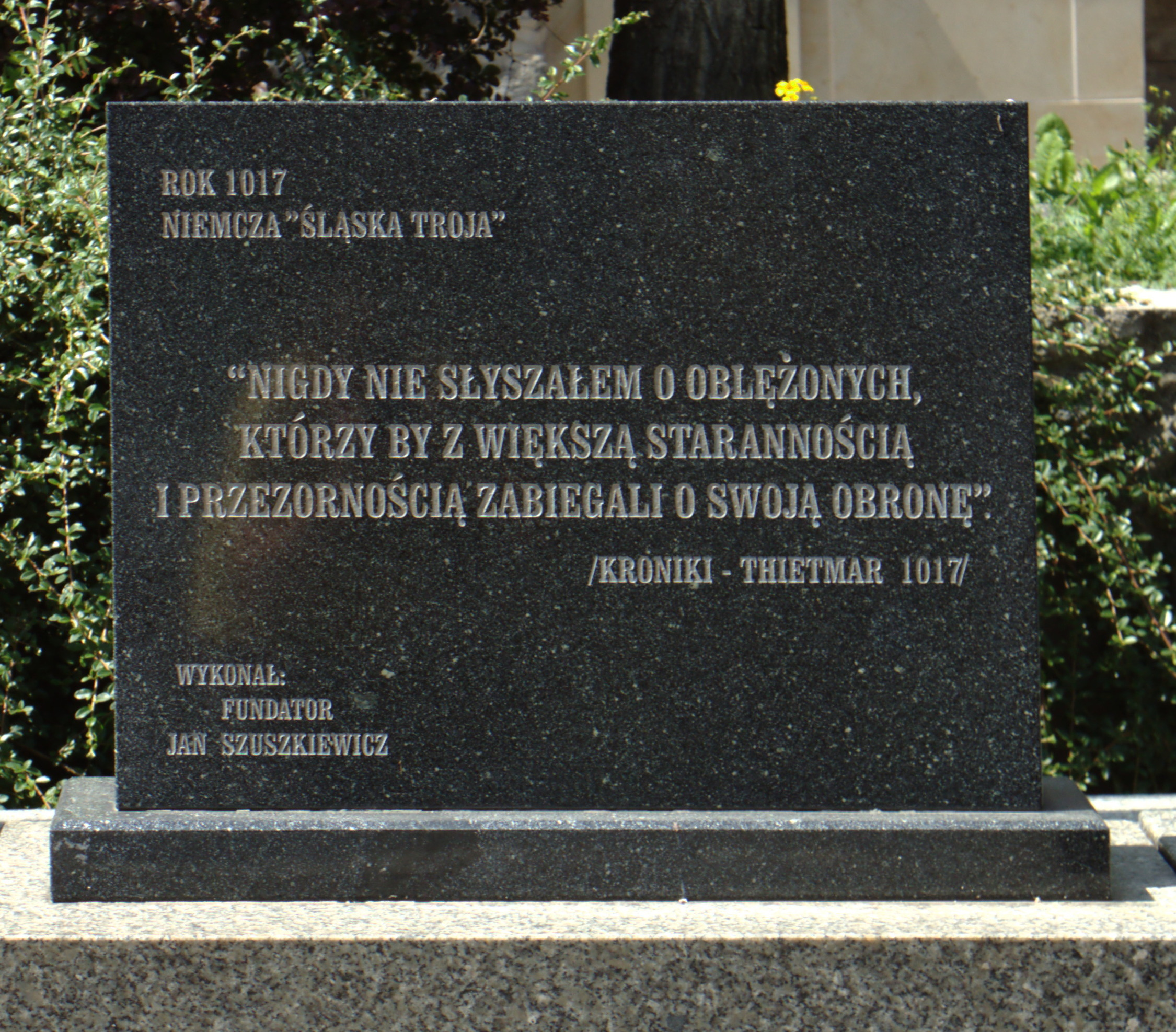 A memorial plaque at the main square in Niemcza, Poland